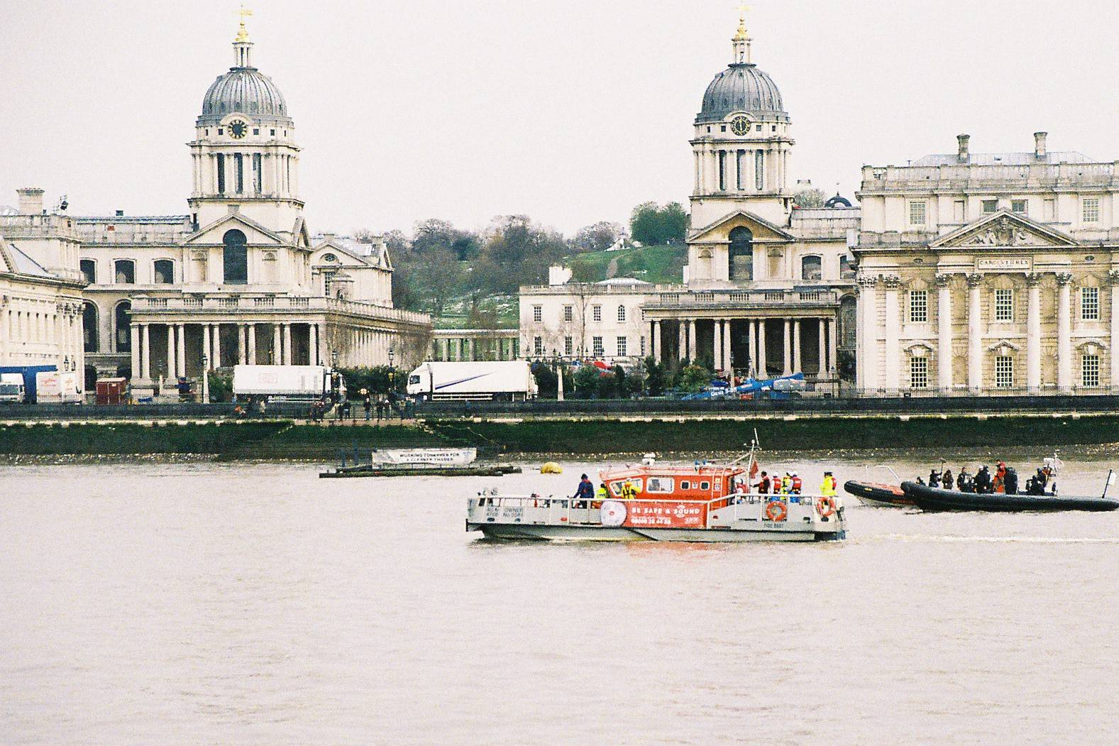 The Olympic flame, traveling by boat, passes Greenwich on the final leg of its journey through London in 2008.